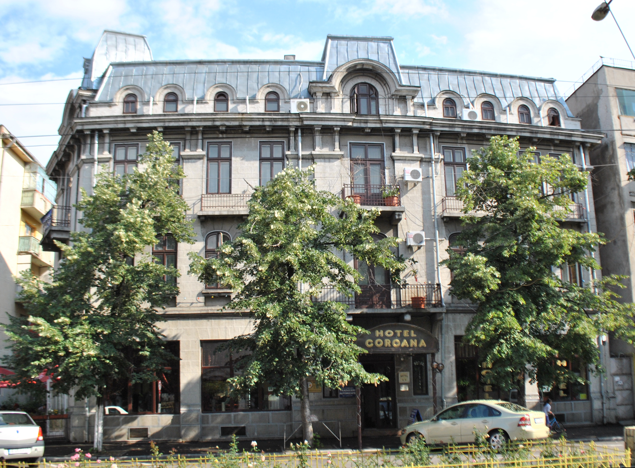 Coroana hotel in Buzău, RomaniaRomână: Hotel Coroana din Buzău, România